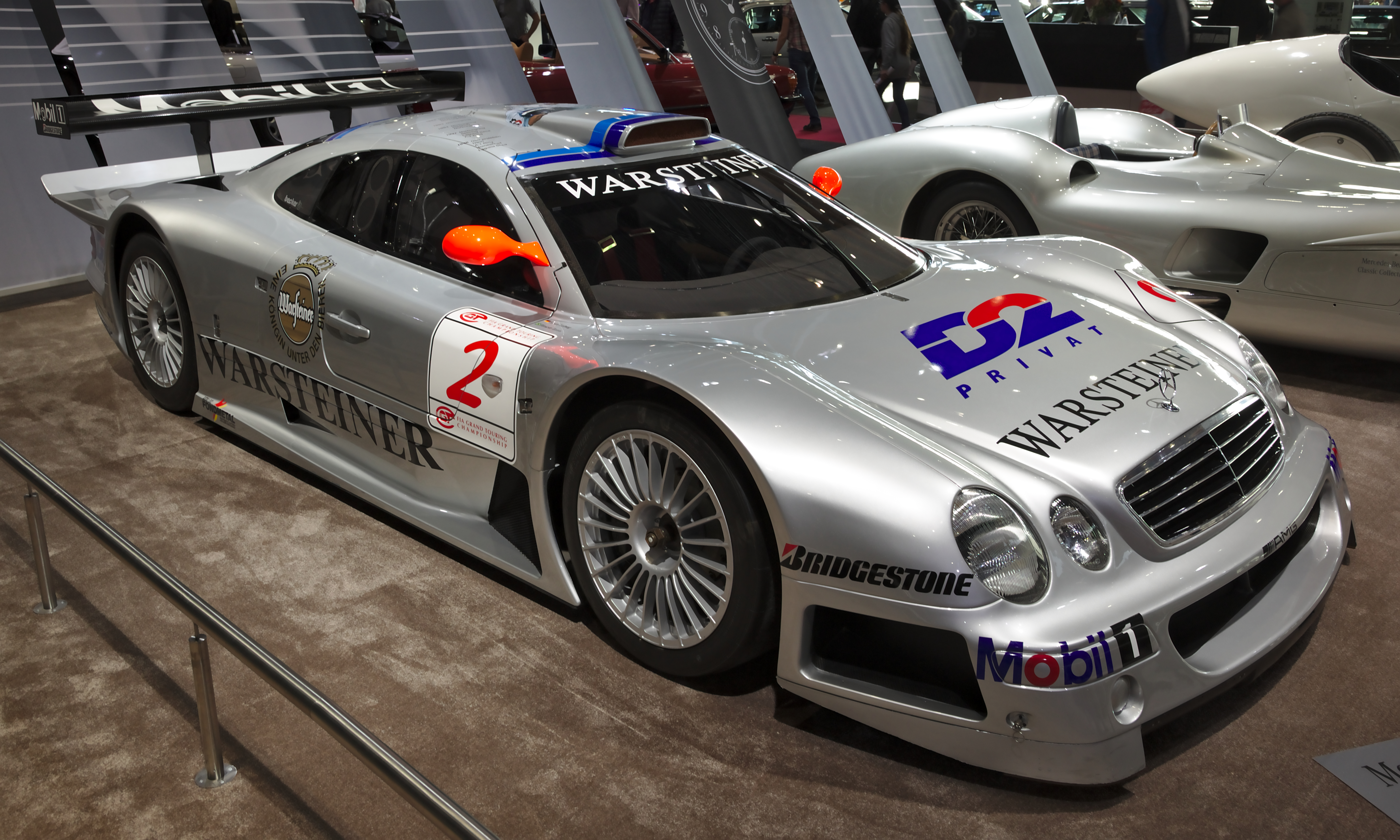 Mercedes-Benz GT-Rennsportwagen CLK-GTR at Retro Classics 2019